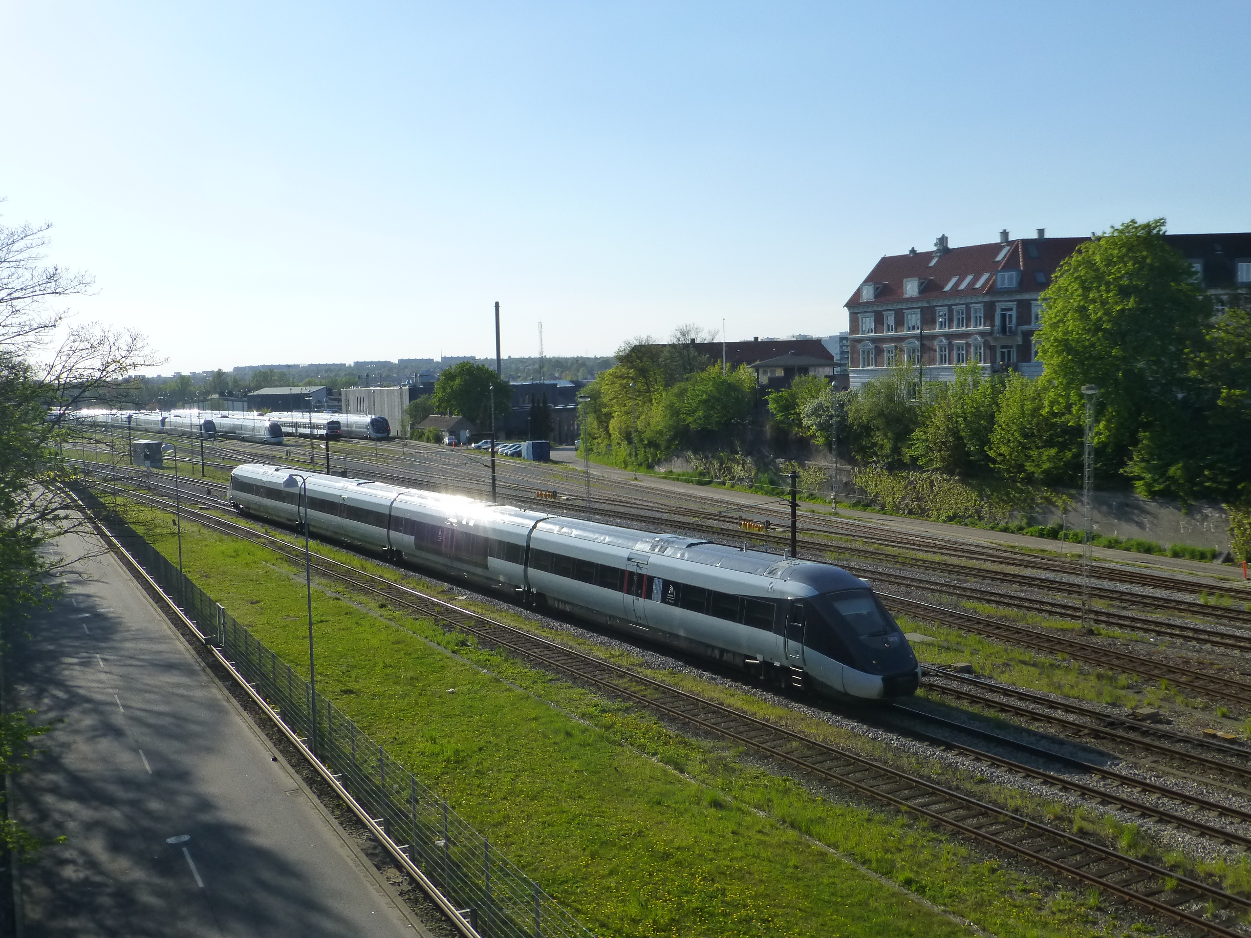 Diesel multiple unit DSB IC4 02 in Aarhus in Denmark.